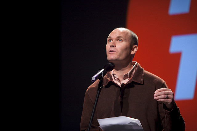 American author Anthony Doerr speaking at Pop!Tech 2009